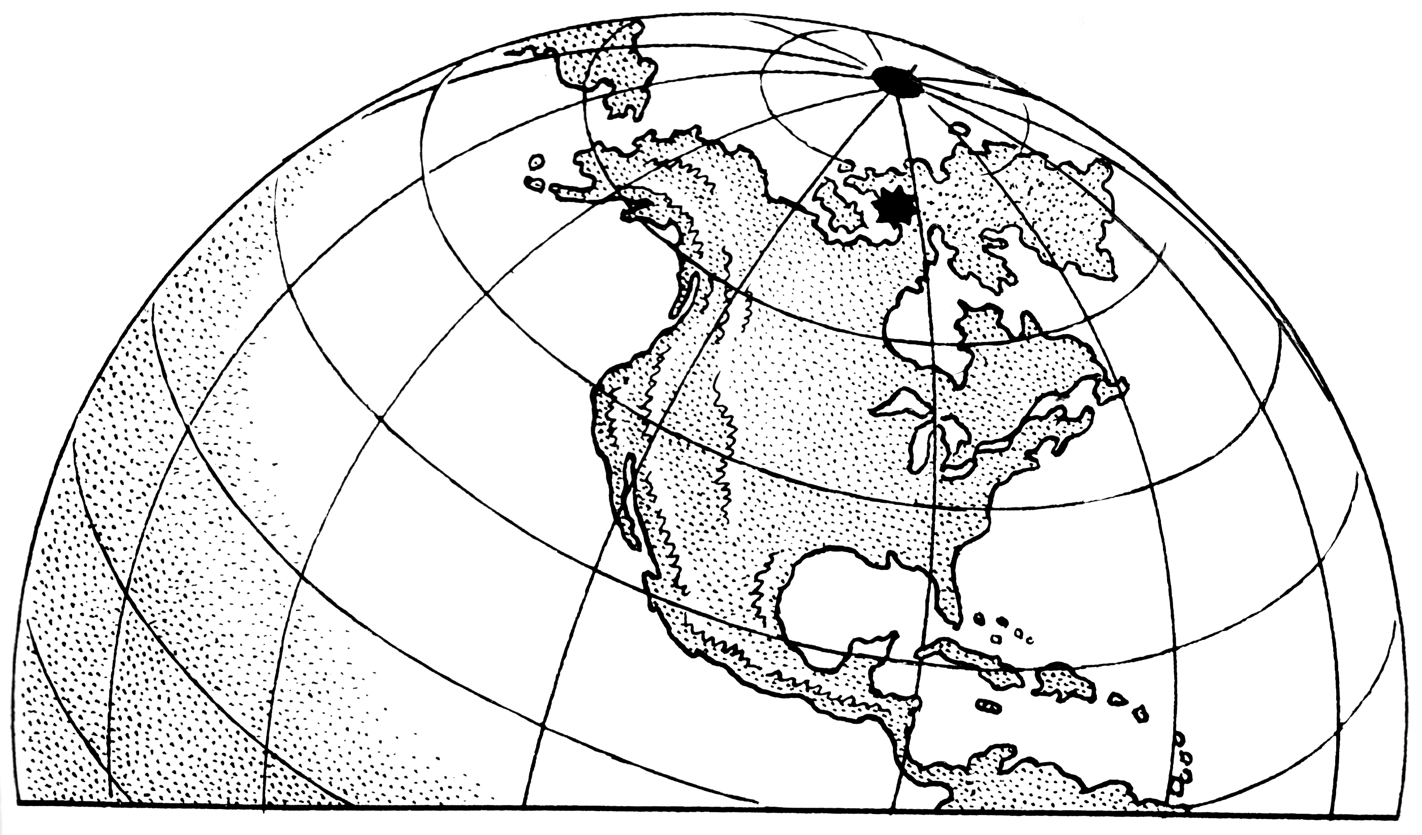 Northern Hemisphere map of Earth showing North America with location of the arctic magnetic pole (star-shaped symbol).